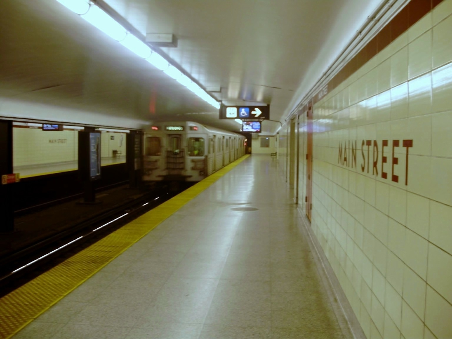 An eastbound train arriving in Main Steet subway station in Toronto